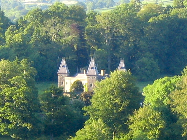 Newton House as seen from atop Dinefwr Castle keep. Newton House and Dinefwr Castle are in Dinefwr Park near Llandeilo.